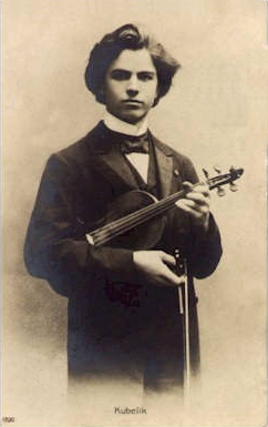 Portrait of Czech violinist Jan Kubelík.